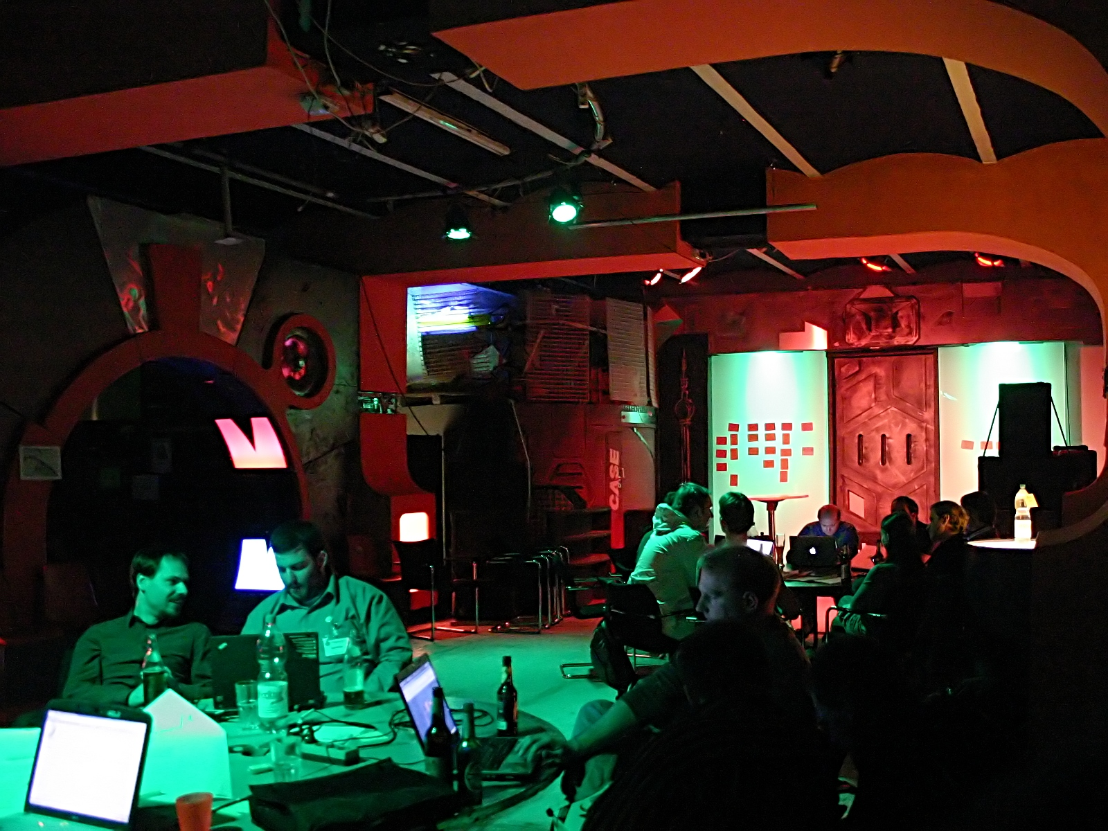 Wikimedia Conference Berlin 2009 - Meeting of MediaWiki developers in the "cbase"